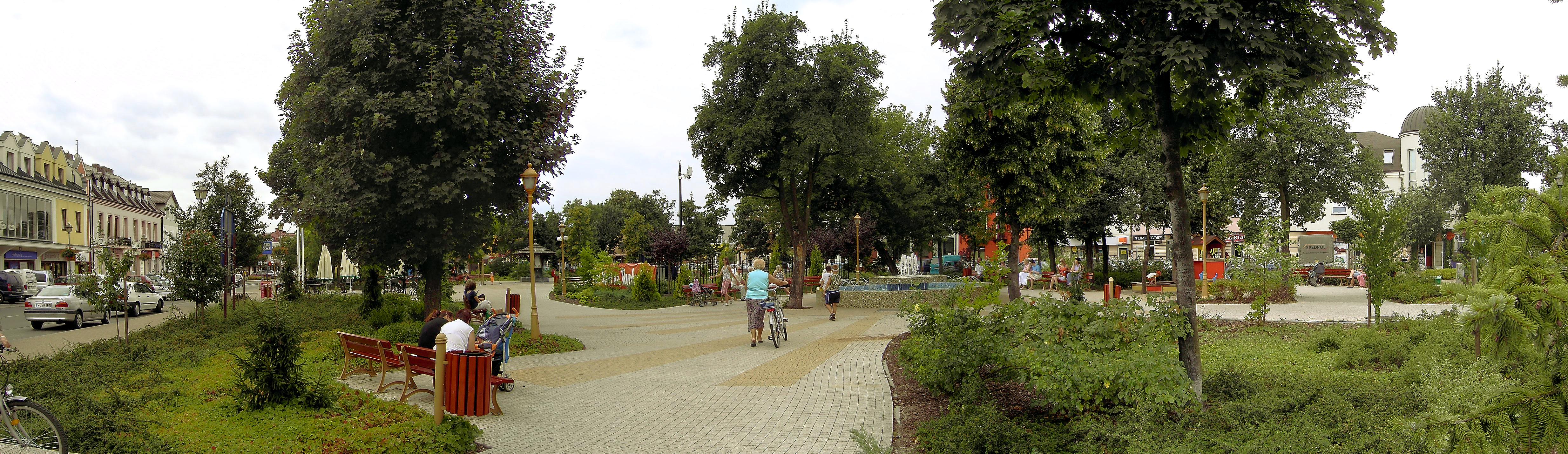 Legionowo, Main square